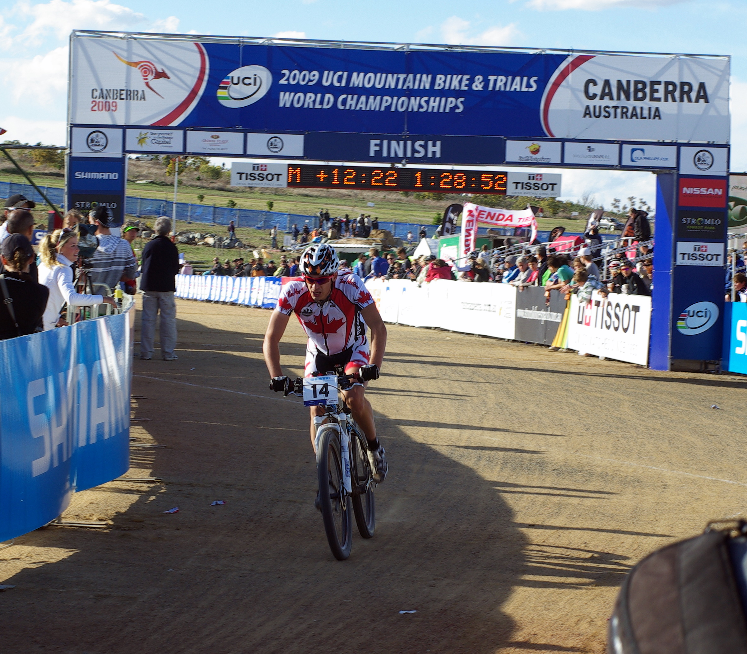 Cross-country mountain biking: Competitors in the under 23 men's division at the 2009 UCI Mountain Bike and Trials World Championships held at Mount Stromlo, near Canberra, Australia. Canadian rider Raphael Gagne passes under the start/finish line.